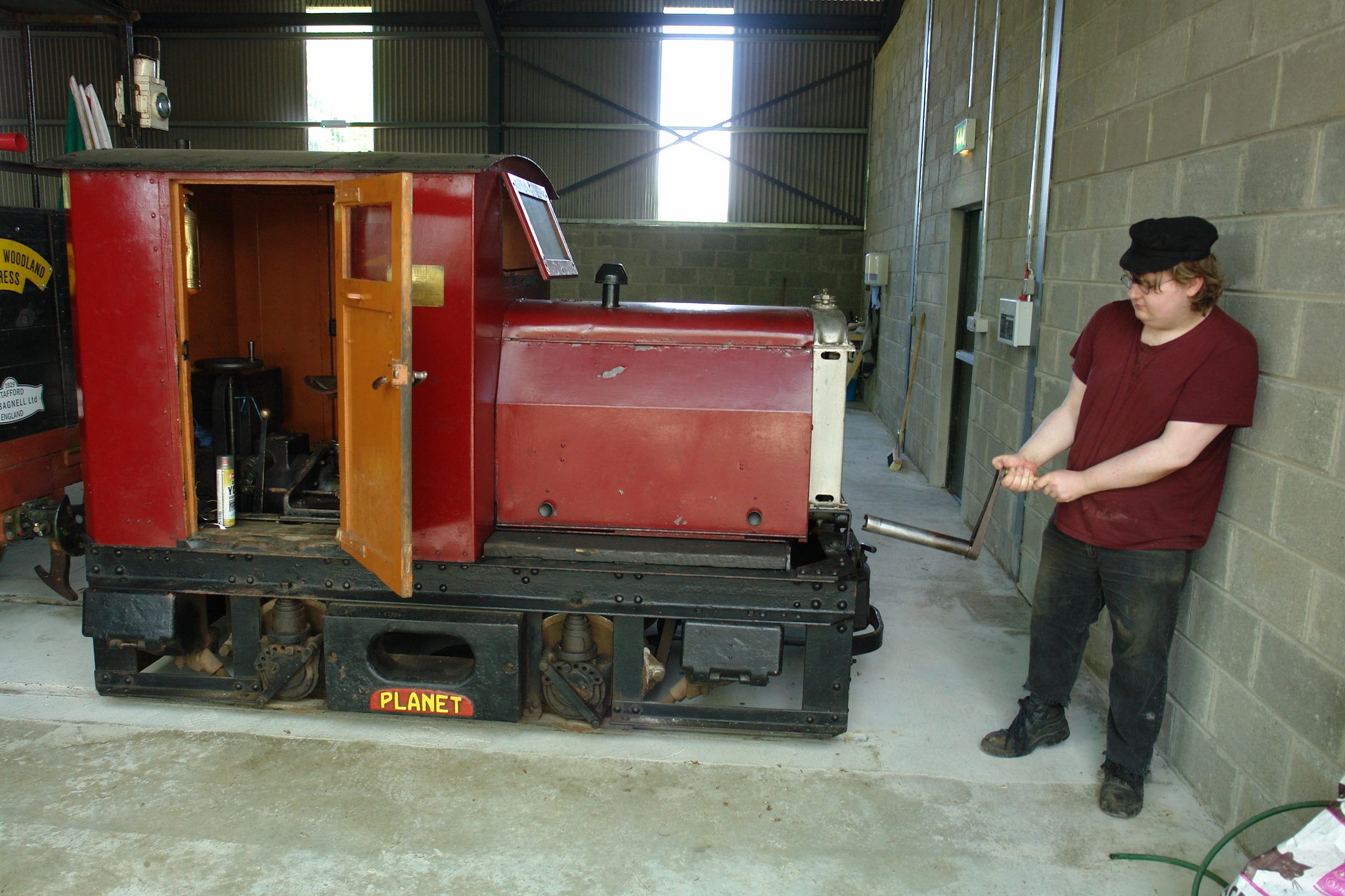 Rolling stock of Stradbally Woodland Railway within the grounds of Stradbally Hall Co. Laois, Ireland